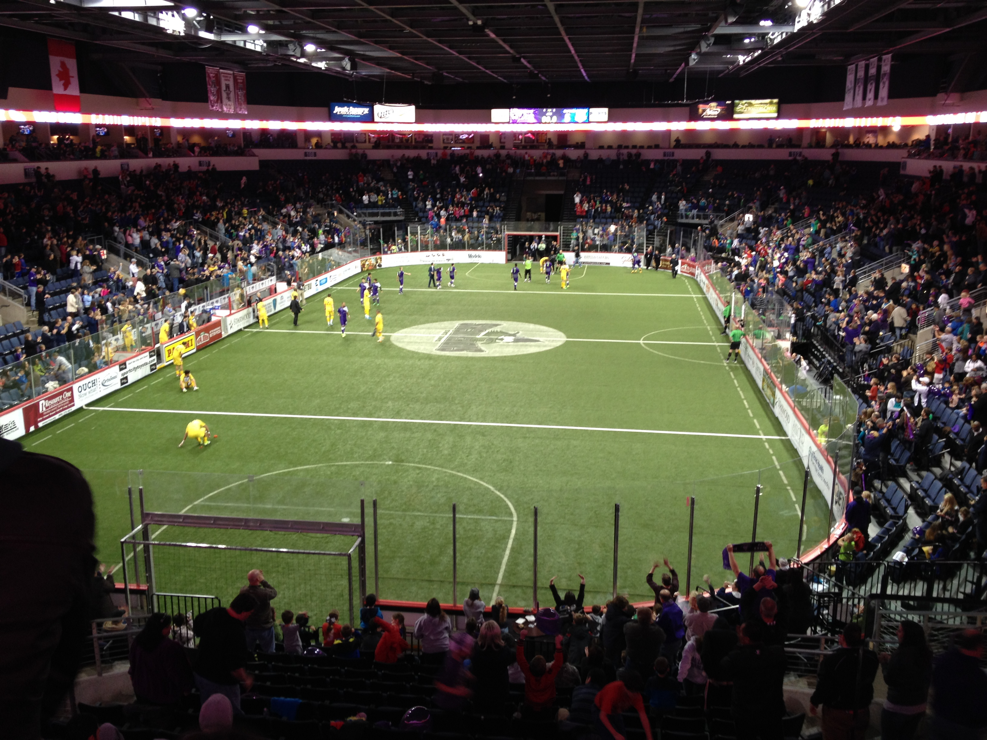 Beaumont based Oxford City FC of Texas at Dallas Sidekicks in MASL playoff action, March 1, 2015